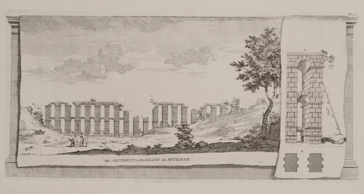 Richard Pococke. A Description of the East, and some other Countries, London, W. Bowyer, MDCCXLV (1743-1745)